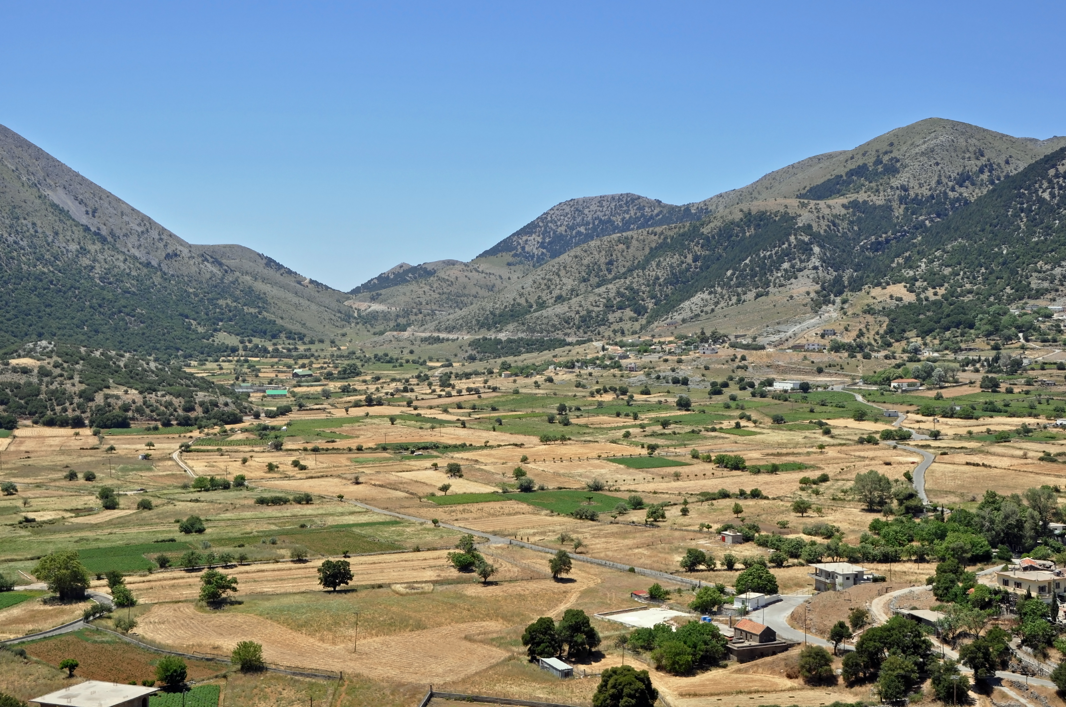 Askifou Plateau on Crete (Greece)